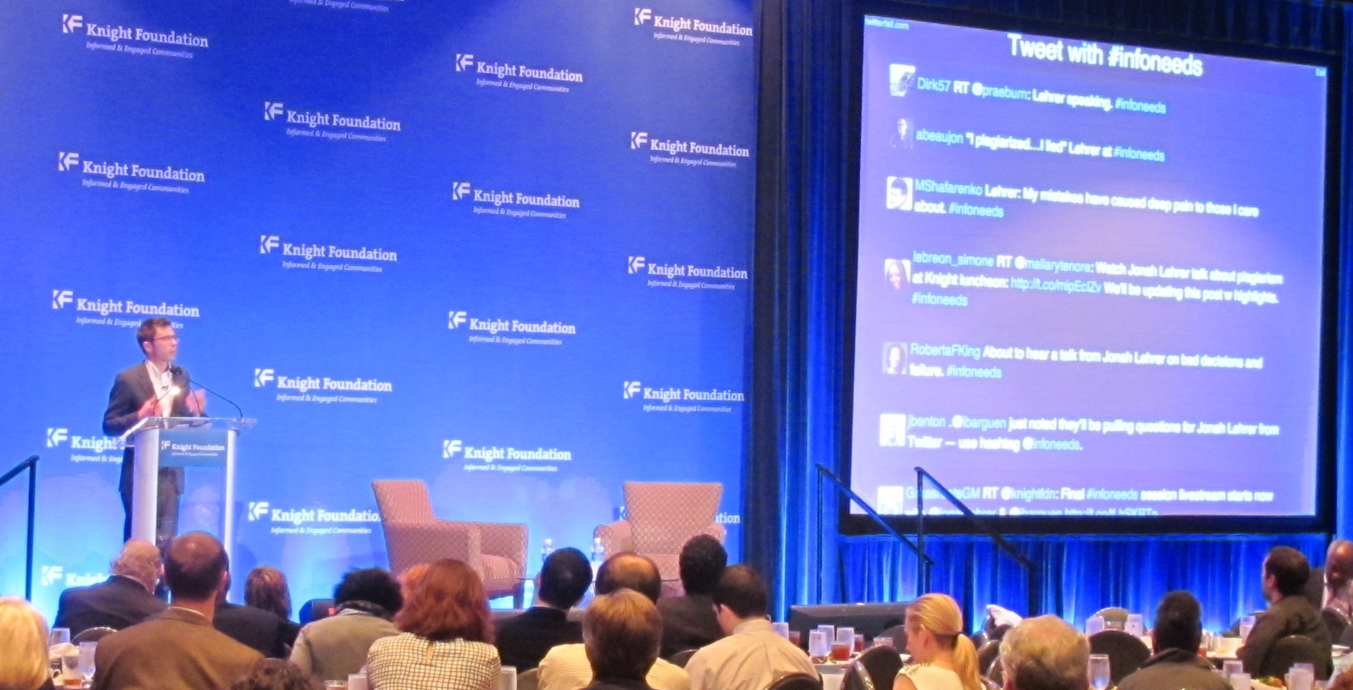 Jonah Lehrer makes a speech to the Knight Foundation after admitting that his book Imagine was based on fabricated quotes. Lehrer's speech was livestreamed over the internet and discussed on Twitter so that both Lehrer and the audience could see in real time the (often harshly critical) reaction to the speech, which was perceived as obfuscatory. The episode forms a large part of Jon Ronson's book So You've Been Publicly Shamed, in which Ronson admits to having decided not to say to Lehrer before he made the speech that he found aspects of it unconvincing and evasive. The Knight Foundation was itself criticised for paying Lehrer $20,000 for the speech.